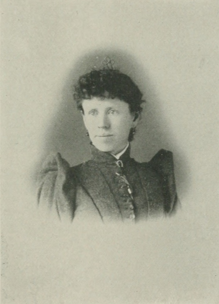 one of the Women of the Century